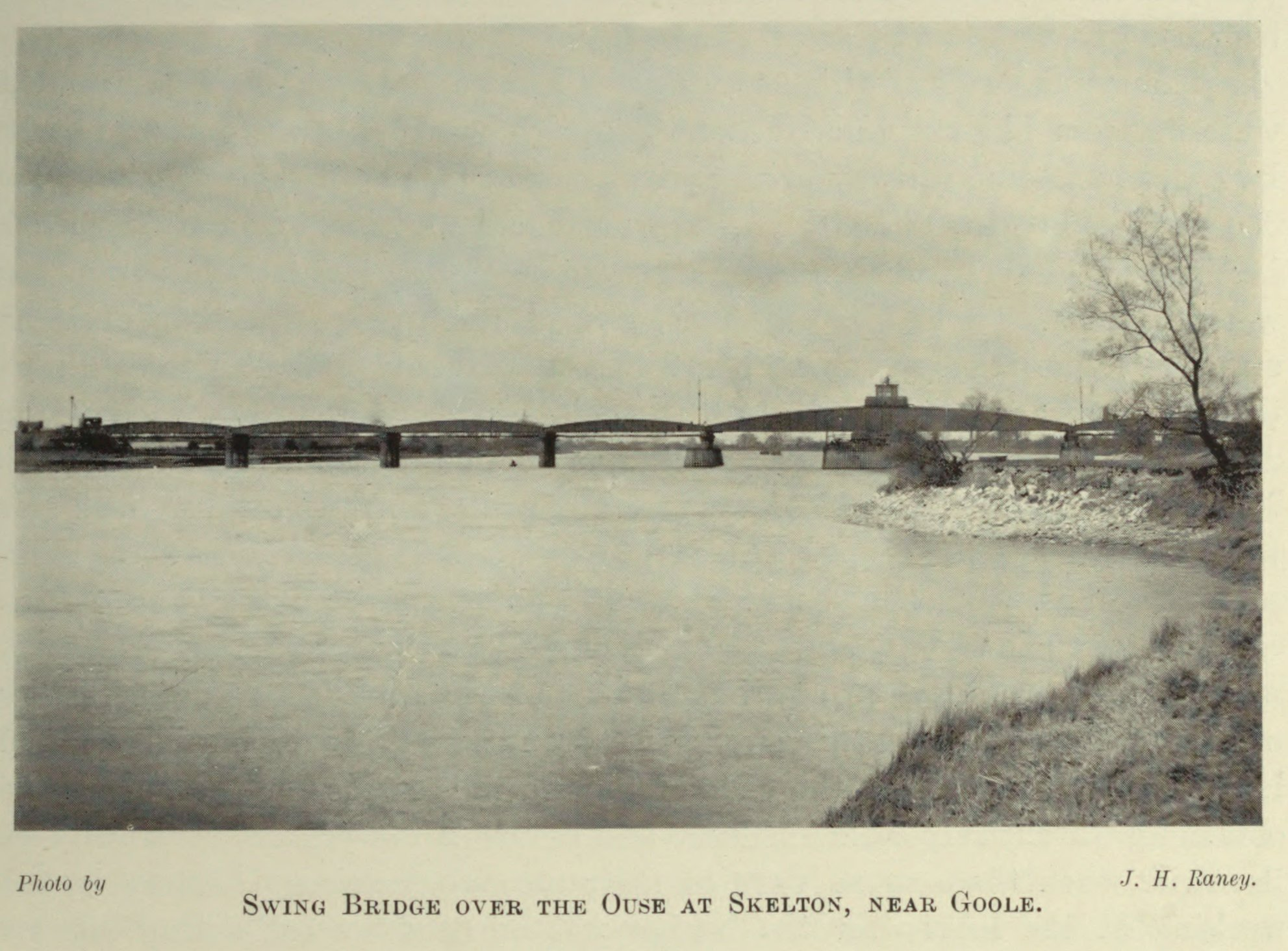 See list of illustrations in souce pages ix to xvi Descriptions are associated with images, also check index for additional text